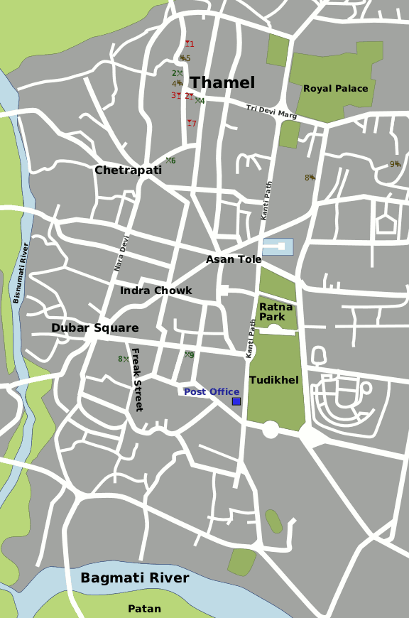 Plan of Kathmandu Eat Yin Yang Restaurant Roadhouse Cafe La Dolce Vita Tashi Delek Northfield Cafe Third Eye Green Ice Just Juice and Shakes Everest Steak House Angan Freak street Pasta Restaurant Drink Sam's Maya Cocktail Bar Maya Pub Euro Rock Jump Club Fire Club Tongues and Tales Sleep The Star Cozy Corner Thorong Peak Kathmandu Guesthouse The Garuda Shechen Guesthouse Kathmandu Hyatt Hotel d'Annapurna Yak and Yeti Tibet Peace Guest House.